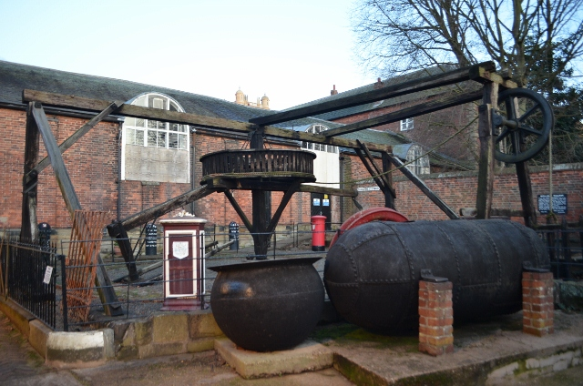 Early Whim Gin, Data from Geograph: Description: A horse gin built at Langton Colliery in 1844 and later used at Pinxton Colliery. 2533711 Early boilers here as well. ICBM: 52.947838957835, -1.2117769136449 Location: (about 2 km from) near to Bilborough, Nottingham, Great Britain.